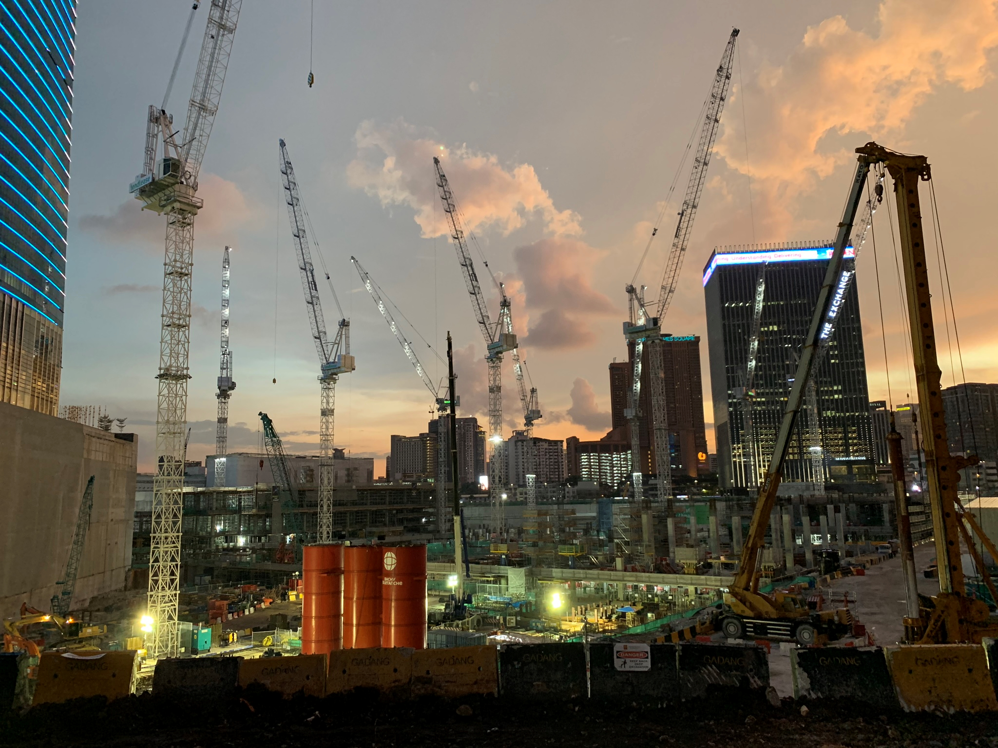 This is the Exchange, a large shopping mall under construction in the Tun Razak Exchange (TRX) as at May 2019